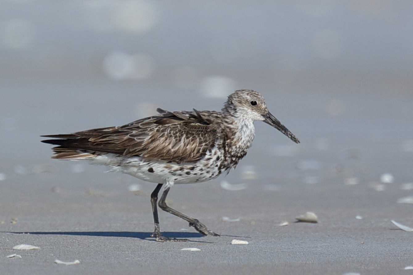 Calidris tenuirostris: Eighty Mile Beach, Kimberley west coast, Western Australia.